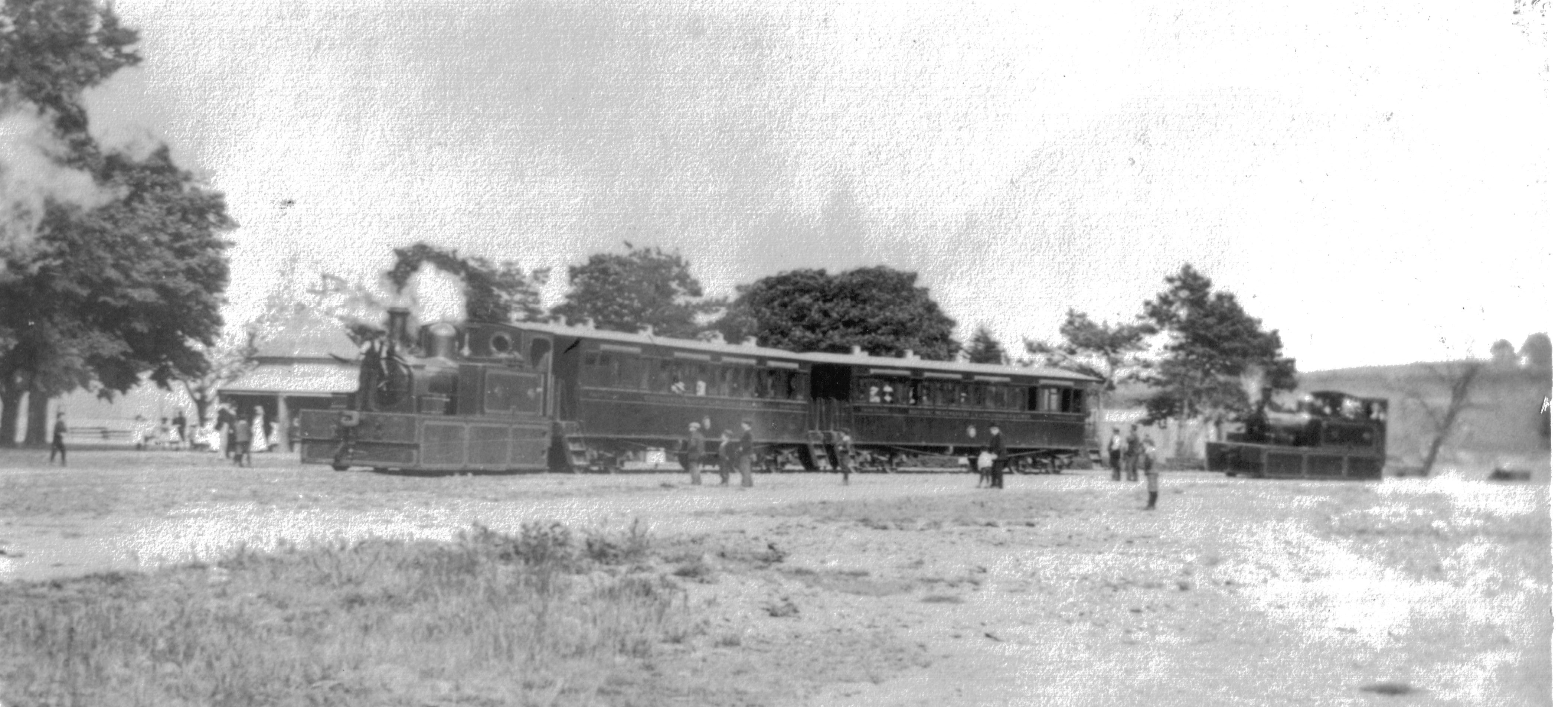 Two locomotives and carriage son Bideford quay, Devon, England